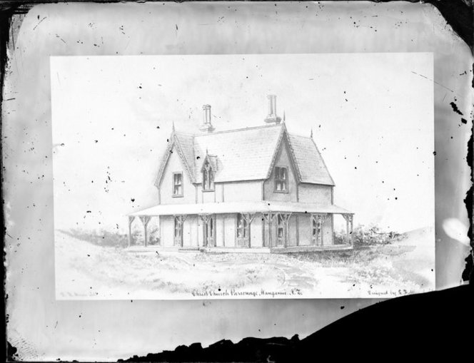 Christ Church Parsonage, Wanganui, New Zealand Christ Church Parsonage, Wanganui, NZ (caption). Harding, William James, 1826-1899 :Negatives of Wanganui district. Ref: 1/4-017178-G. Alexander Turnbull Library, Wellington, New Zealand.